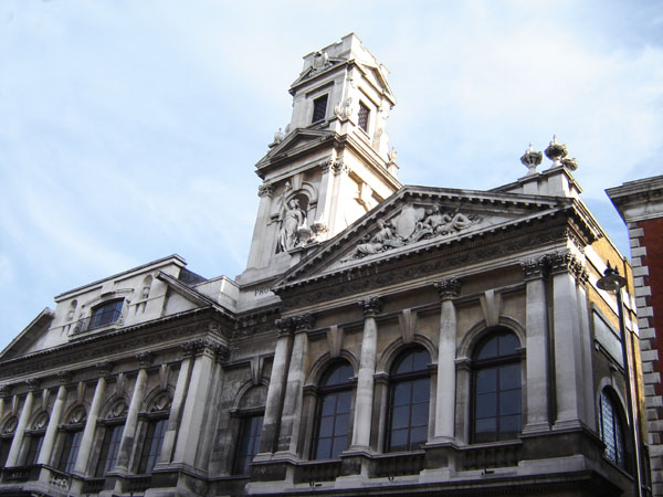 Town Hall, Shoreditch, London. 3 September 2005. Photographer: Fin Fahey.